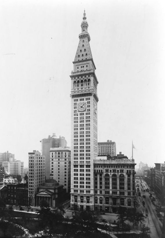 Metropolitan Life Bldg., Manhattan, New York City, in 1911.